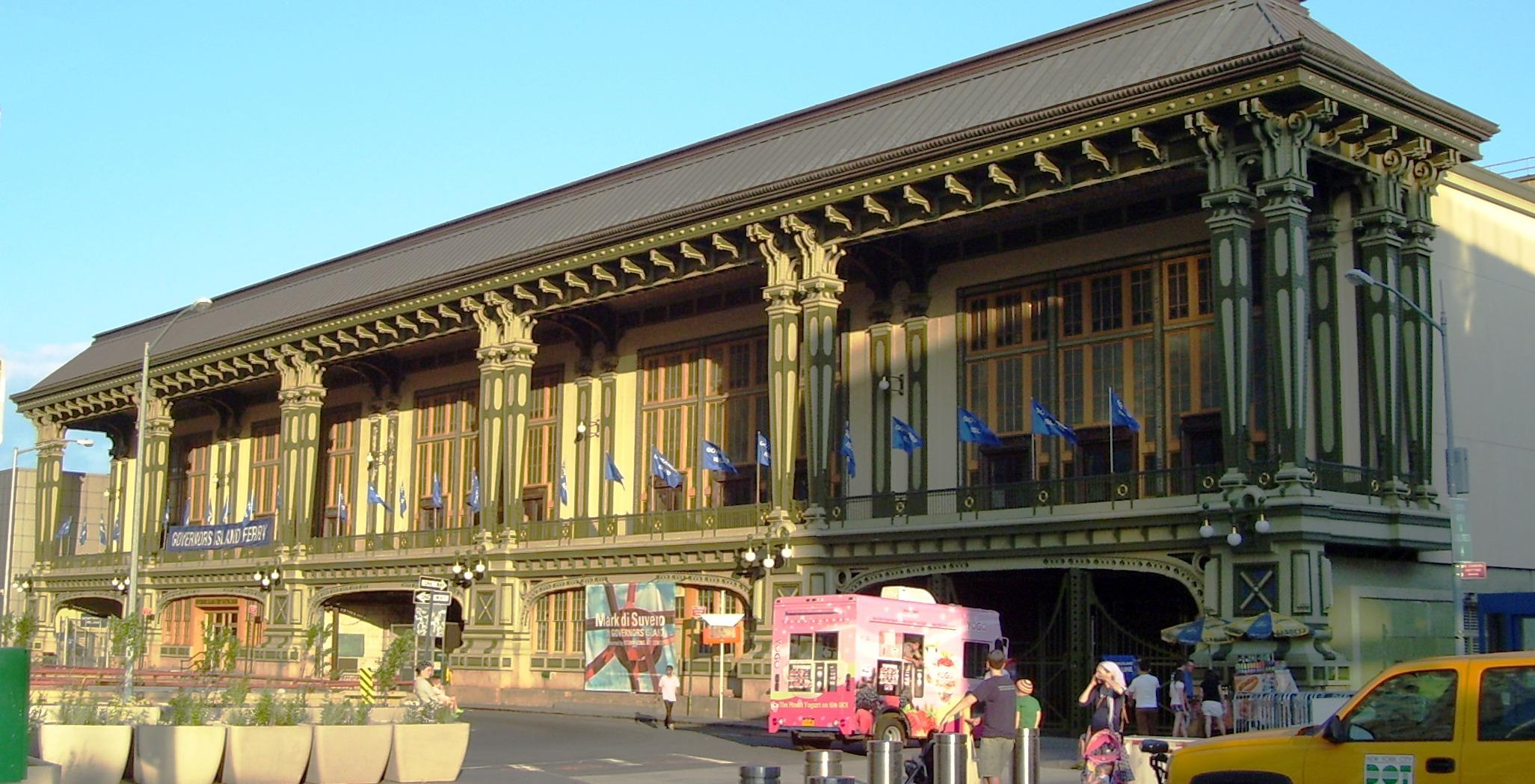 The Battery Maritime Building at 11 South Street in lower Manhattan, was built in 1906-09 as the Municipal Ferry Piers, and was designed by Walker & Morris in the Beaux-Arts style. It was renovated between 2001 and 2005 by Jan Hird Pokorny Architects. (Sources: Guide to NYC Landmarks (4th ed.) and AIA Guide to NYC (4th ed.))